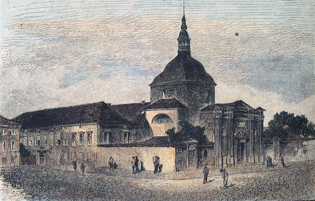 Križanke in Ljubljana on a 18?? drawning.